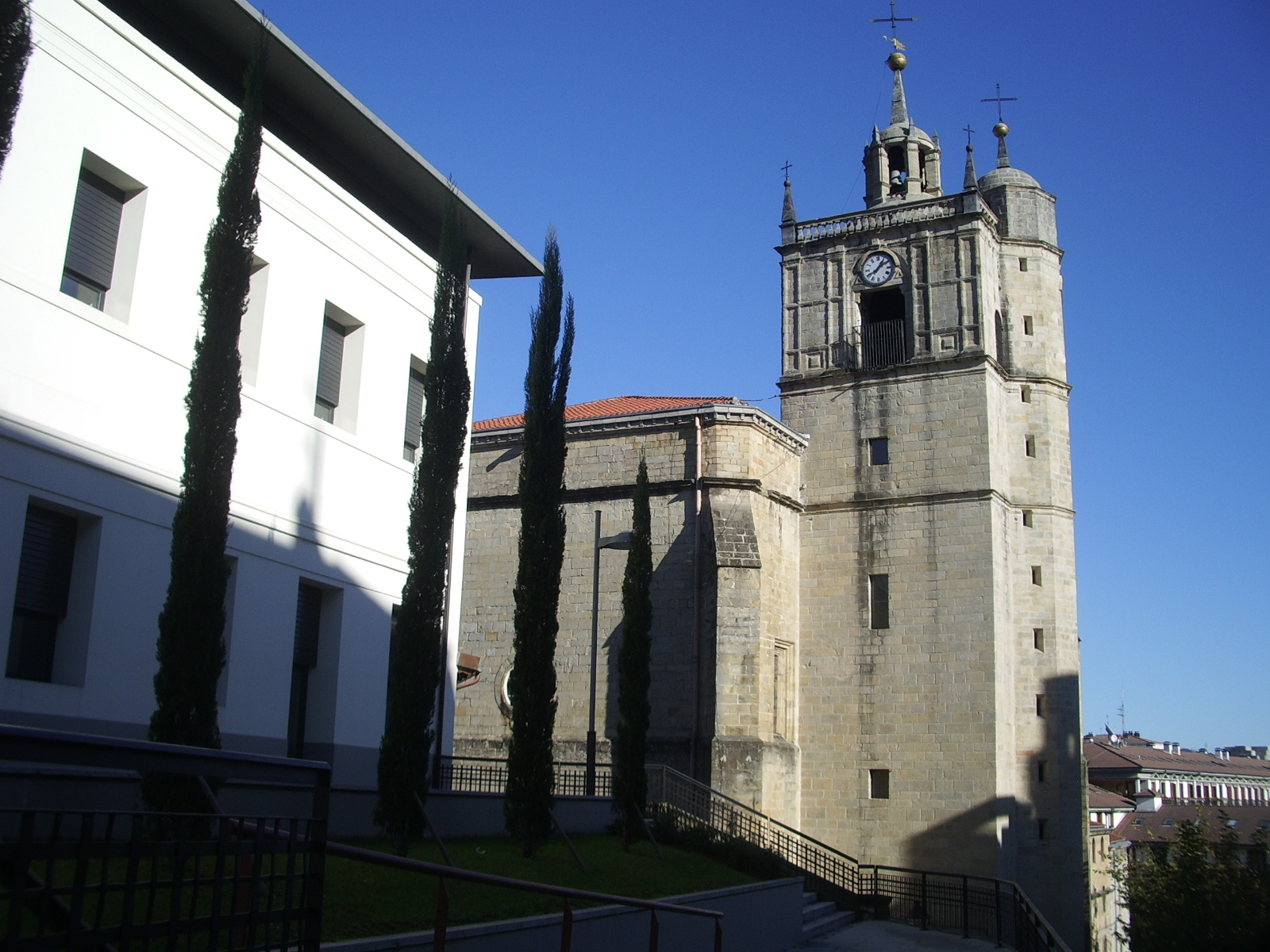 Junkaleko Andre Maria church, from Eskoletako karrika (Irun, Guipuscoa, Basque Country)